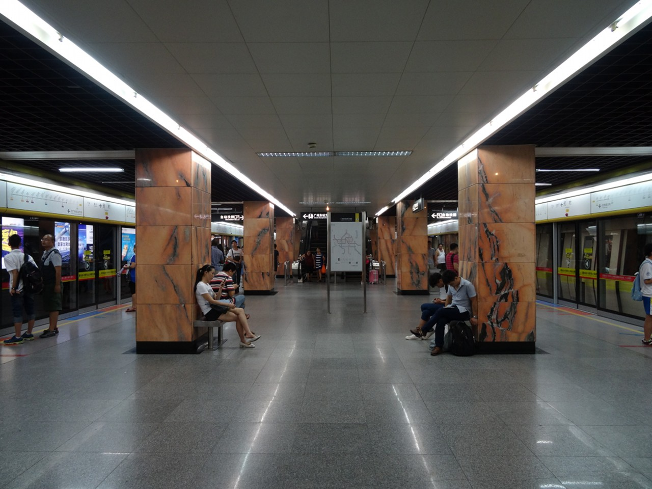 芳村站嘅月台